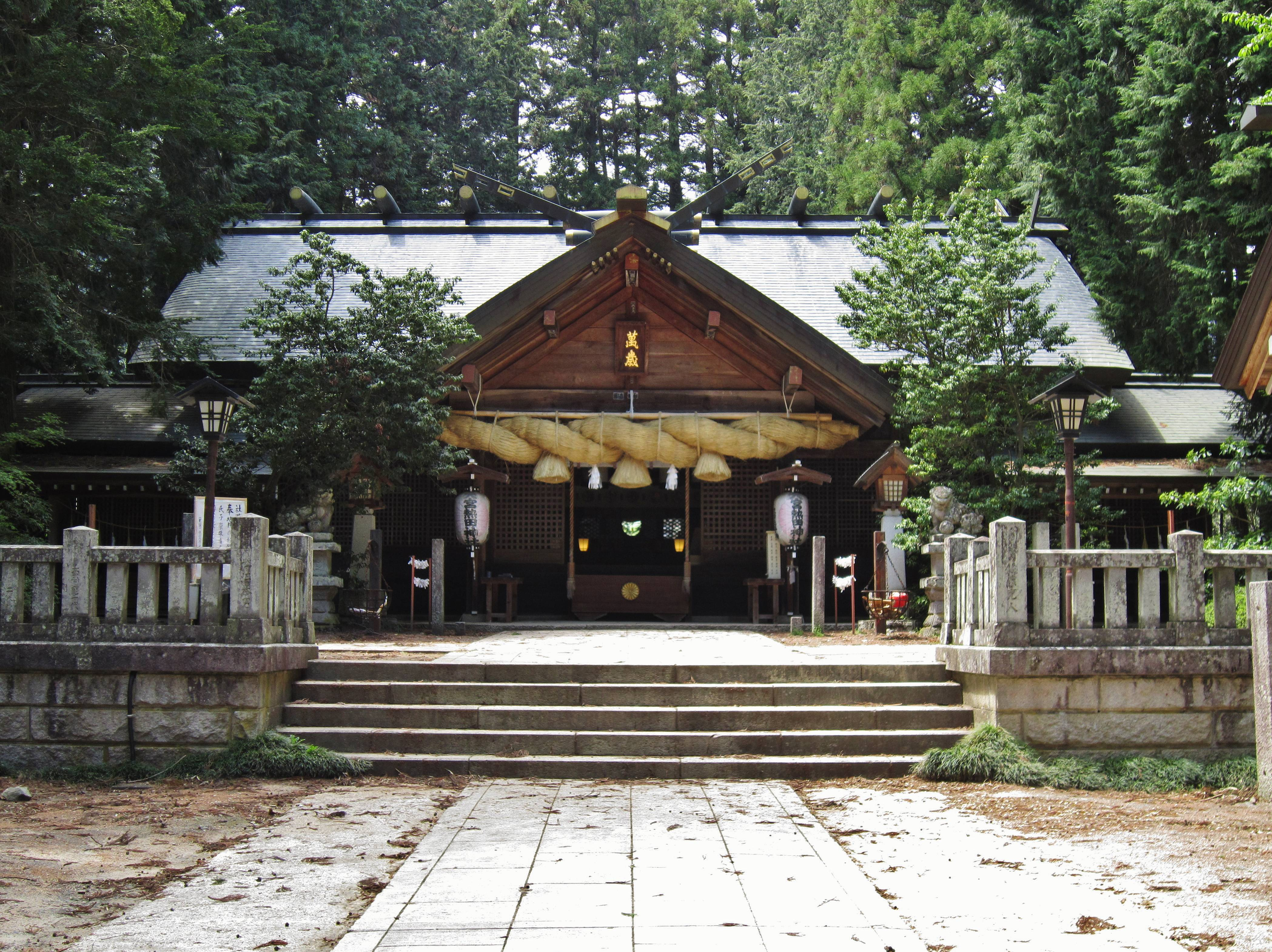 Omiya Atsuta Shrine haiden.